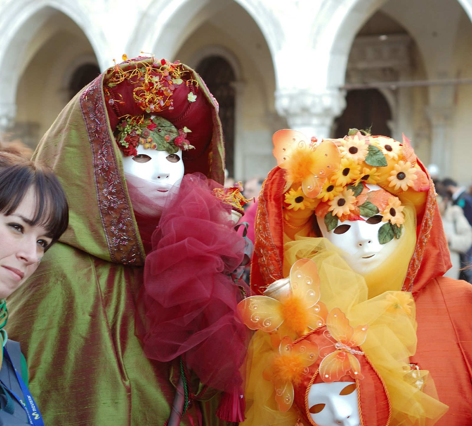 Carnival of Venice.